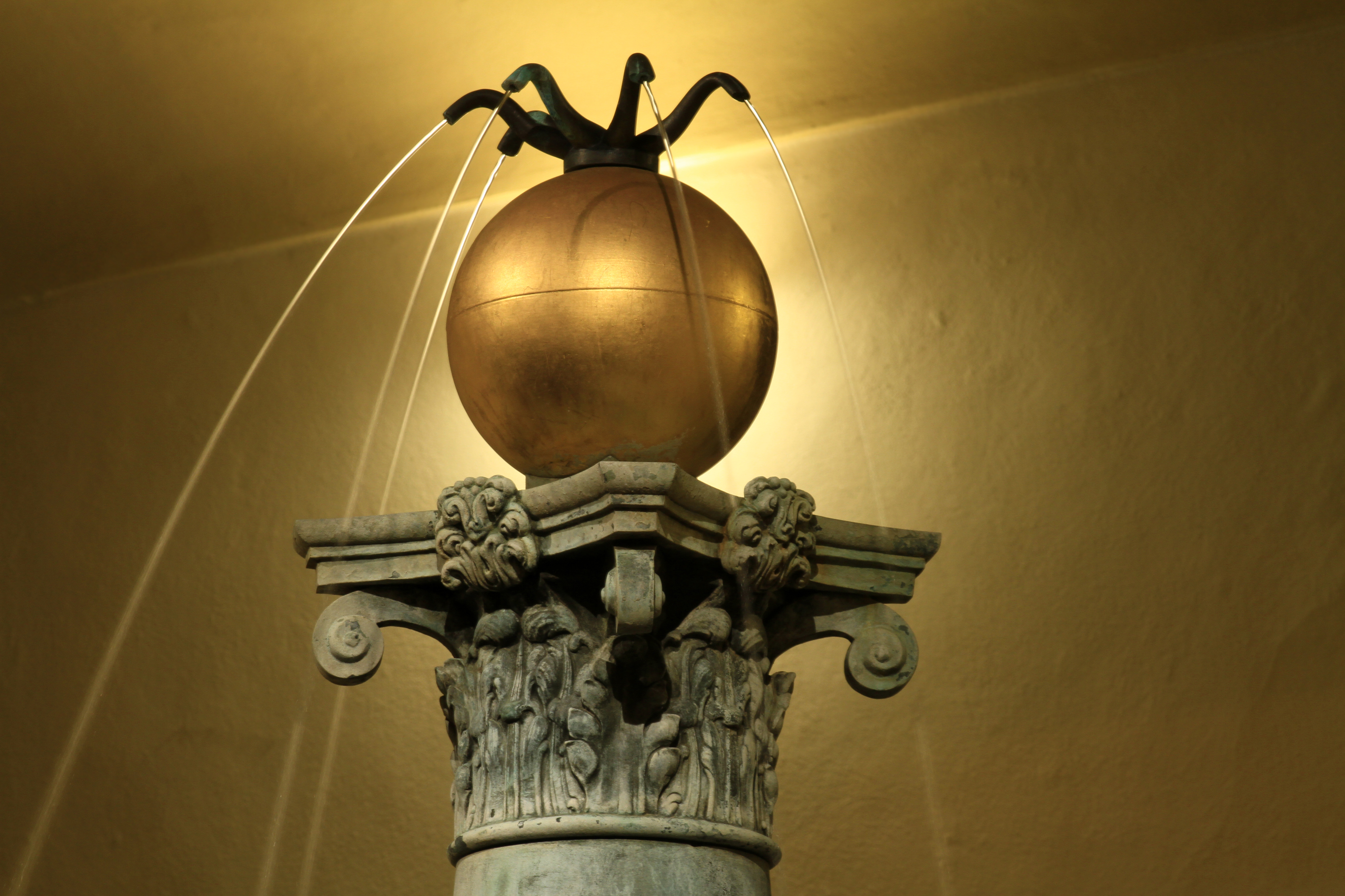 Eagle Fountain, Prague Castle, the Czech Republic.